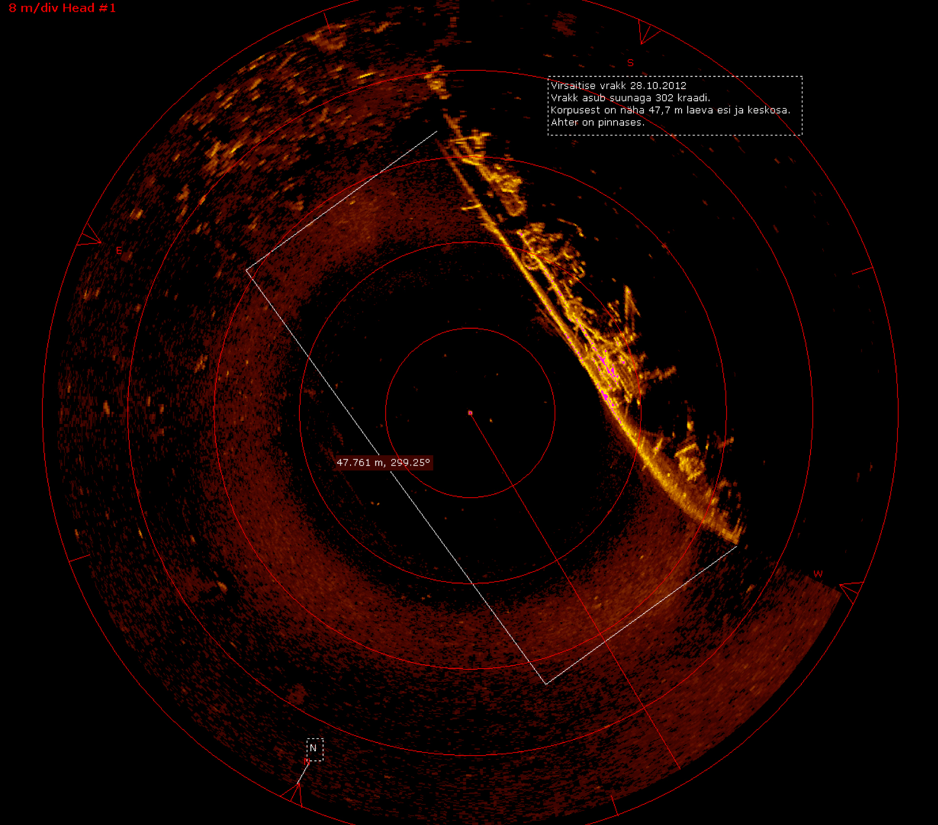 A sonar image of the shipwreck of the Latvian Navy ship Virsaitis.